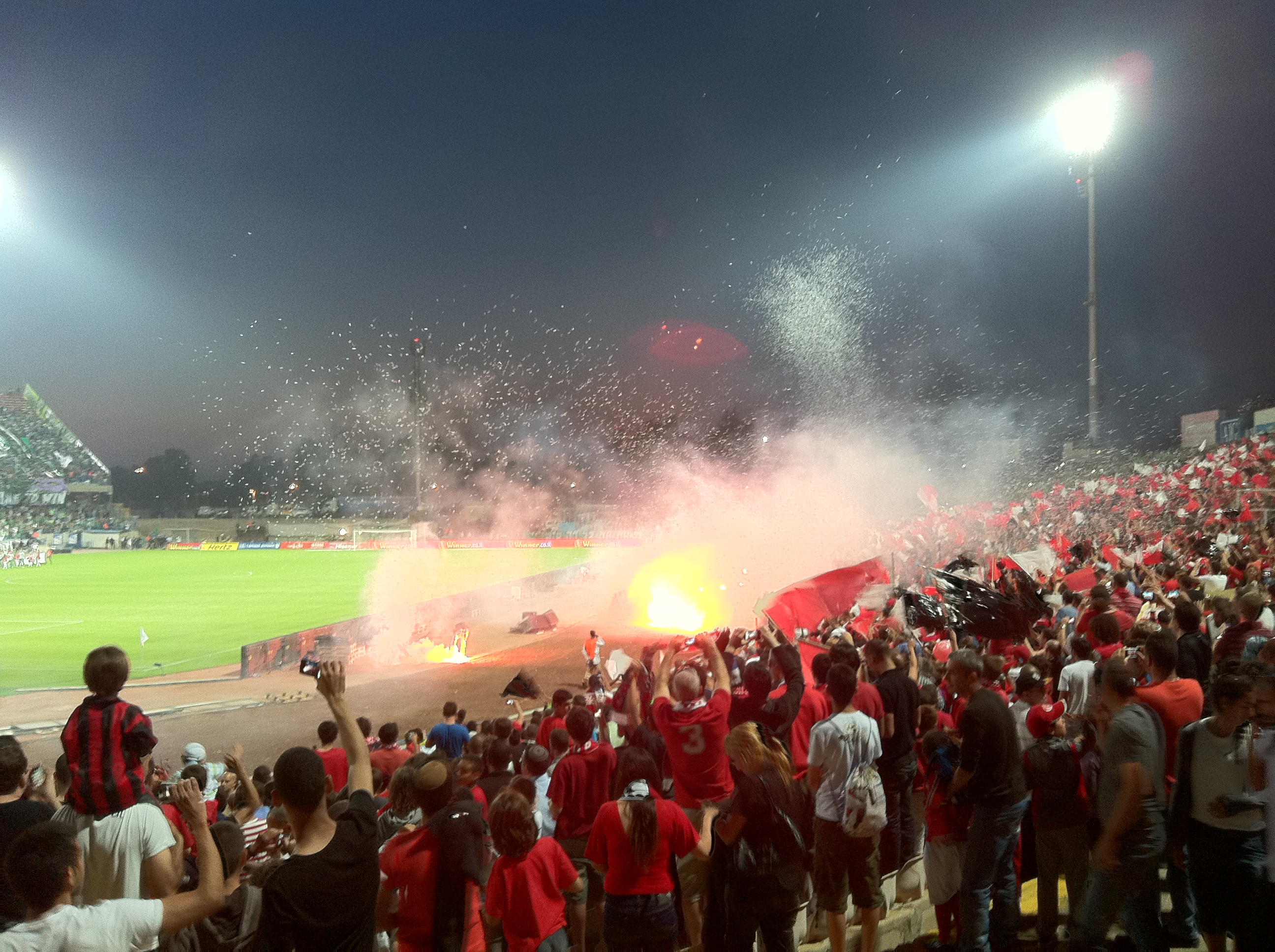 Hapoel Tel Aviv fans, Israeli cup final at Ramat Gan Stadium, May 2012